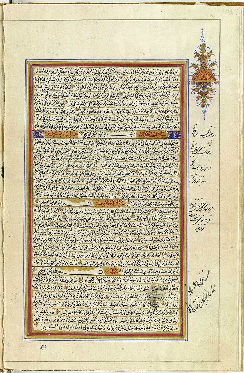 Scan of a Qur'an from the year 1874